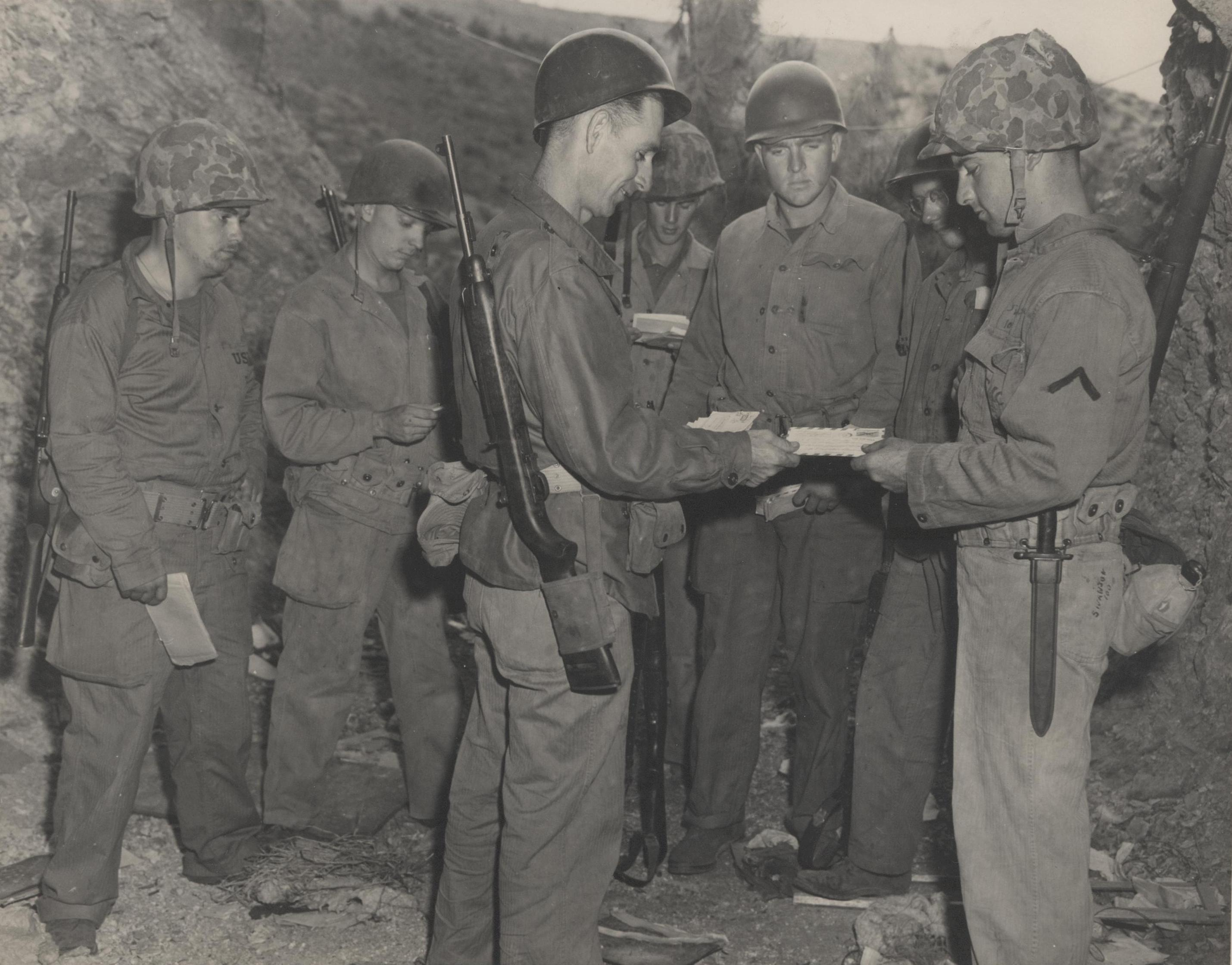 From the Thomas H. Swanson Collection (COLL/5358), Marine Corps Archives & Special Collections OFFICIAL USMC PHOTOGRAPH